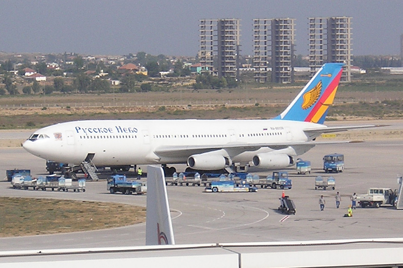 Russian Sky Airlines Ilyushin Il-86 RA-86139 at Antalya Airport